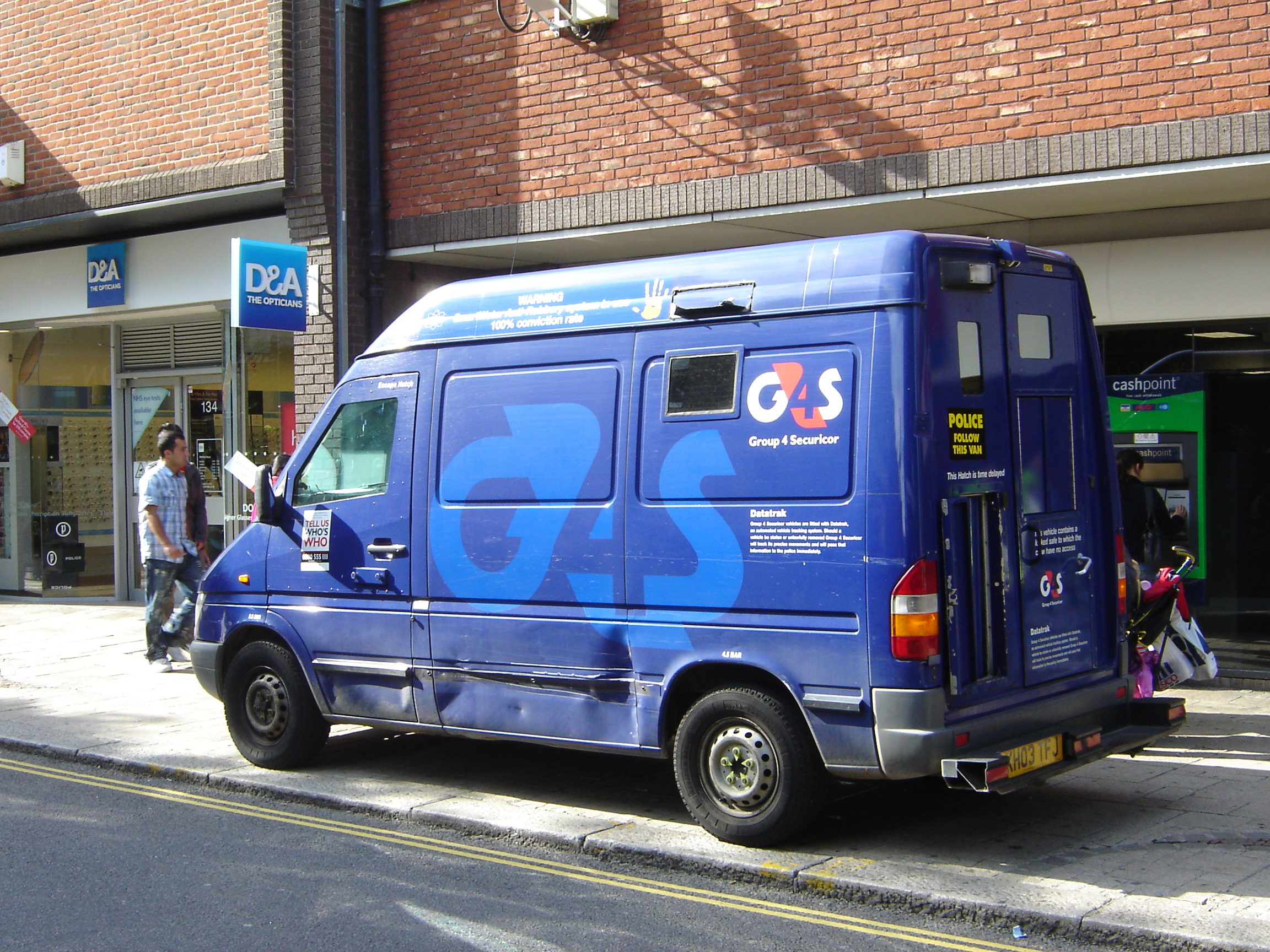 G4S van making a delivery.